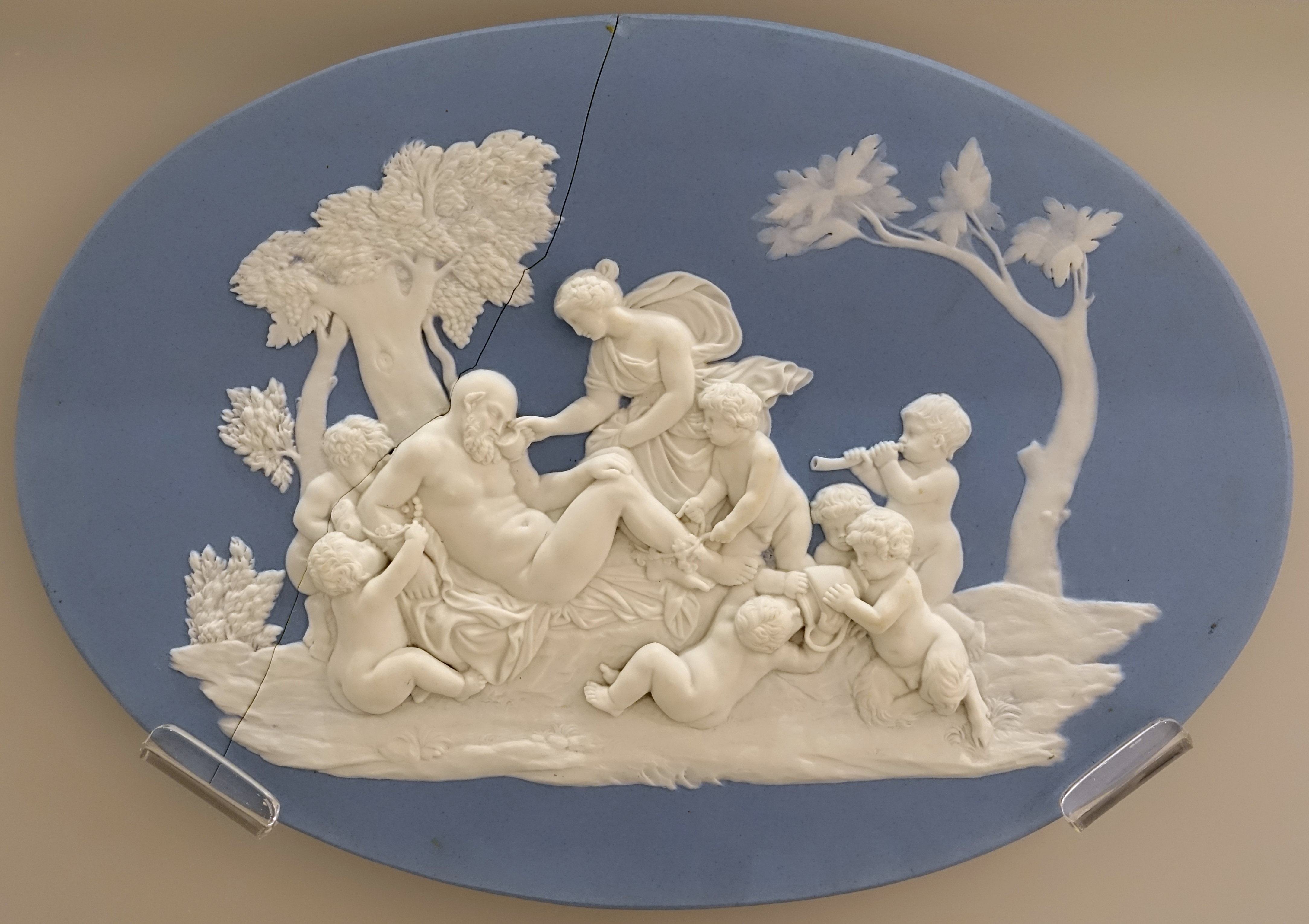 Exhibit in the Wedgwood Museum - Barlaston, Stoke-on-Trent, England.